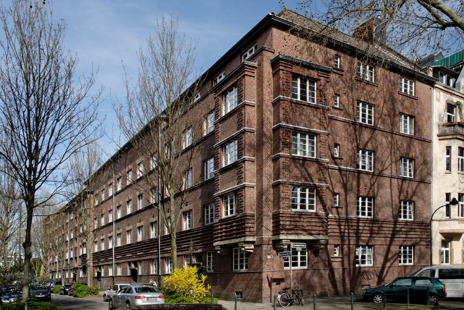 Houses Henriettenstraße 2 to 14 in Düsseldorf-Bilk, Germany This is a photograph of an architectural monument.